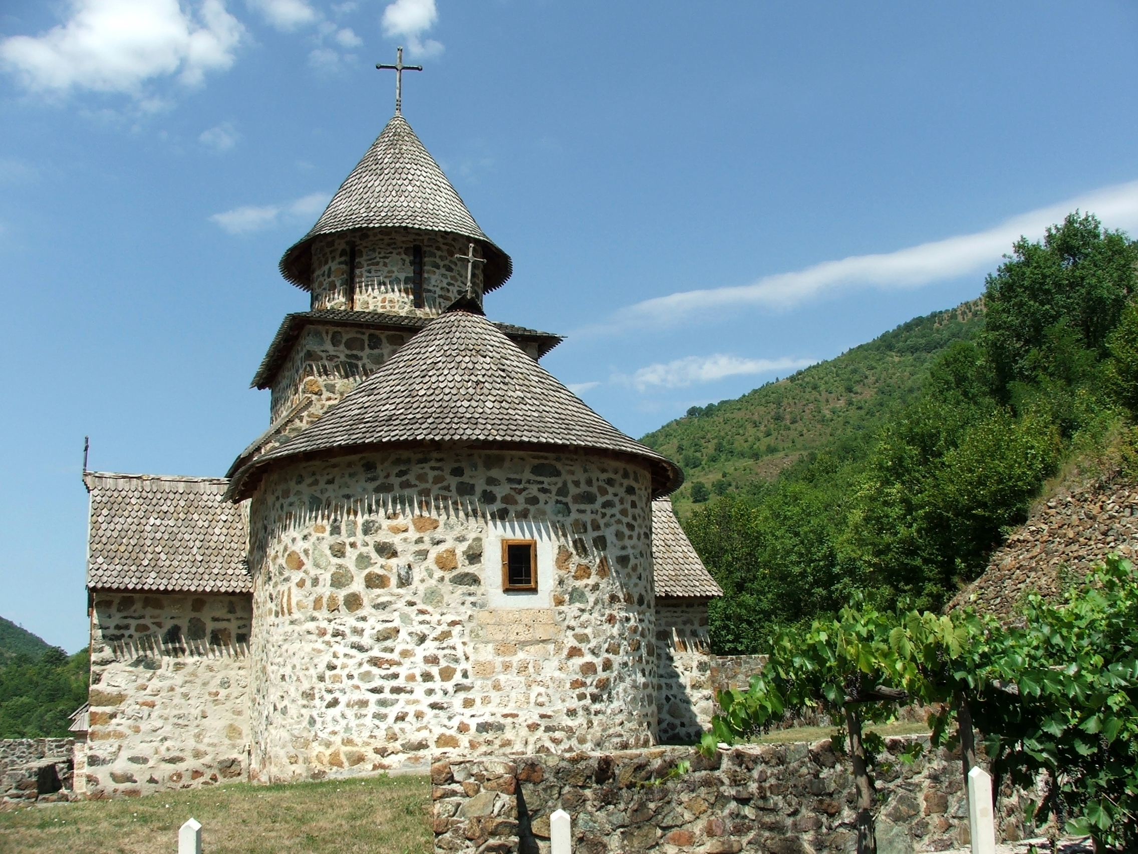 Uvac MonasteryСрпски (ћирилица): Манастир Увац